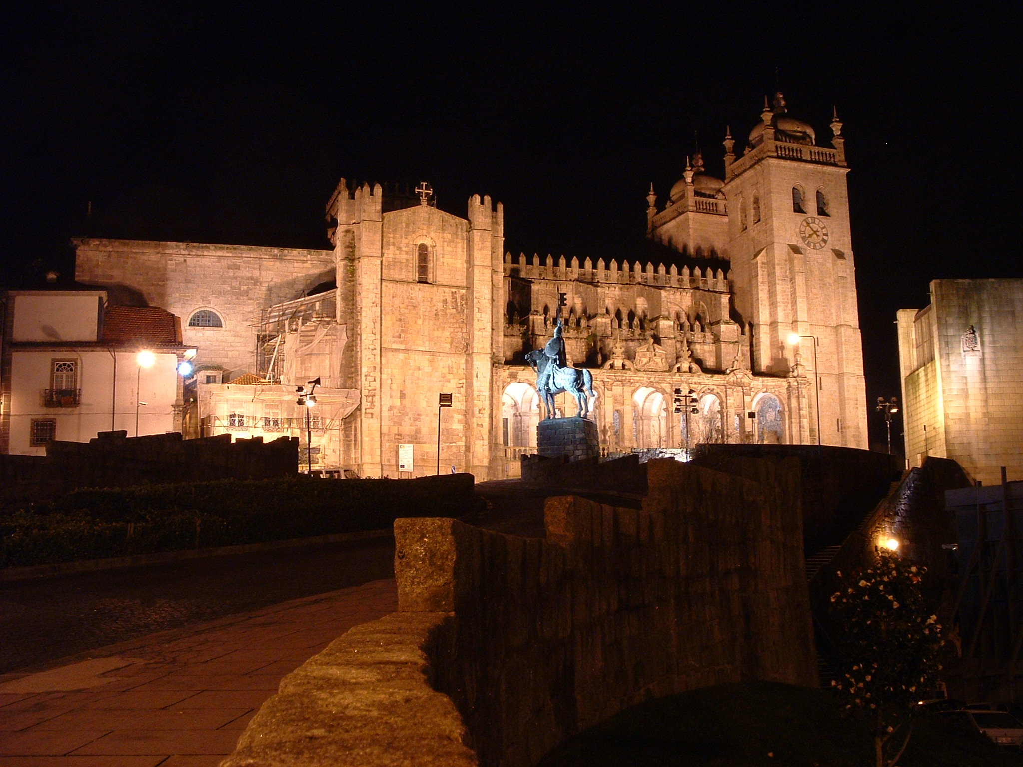 Description Cathedral of Porto, during night Author Photographed by Nuno Tavares